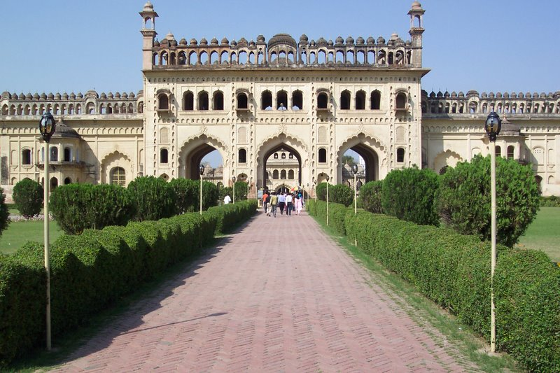 Photograph taken by Sayed Mohammad Faiz Haider